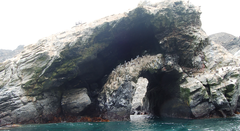 Coastal landscape of Choros Island